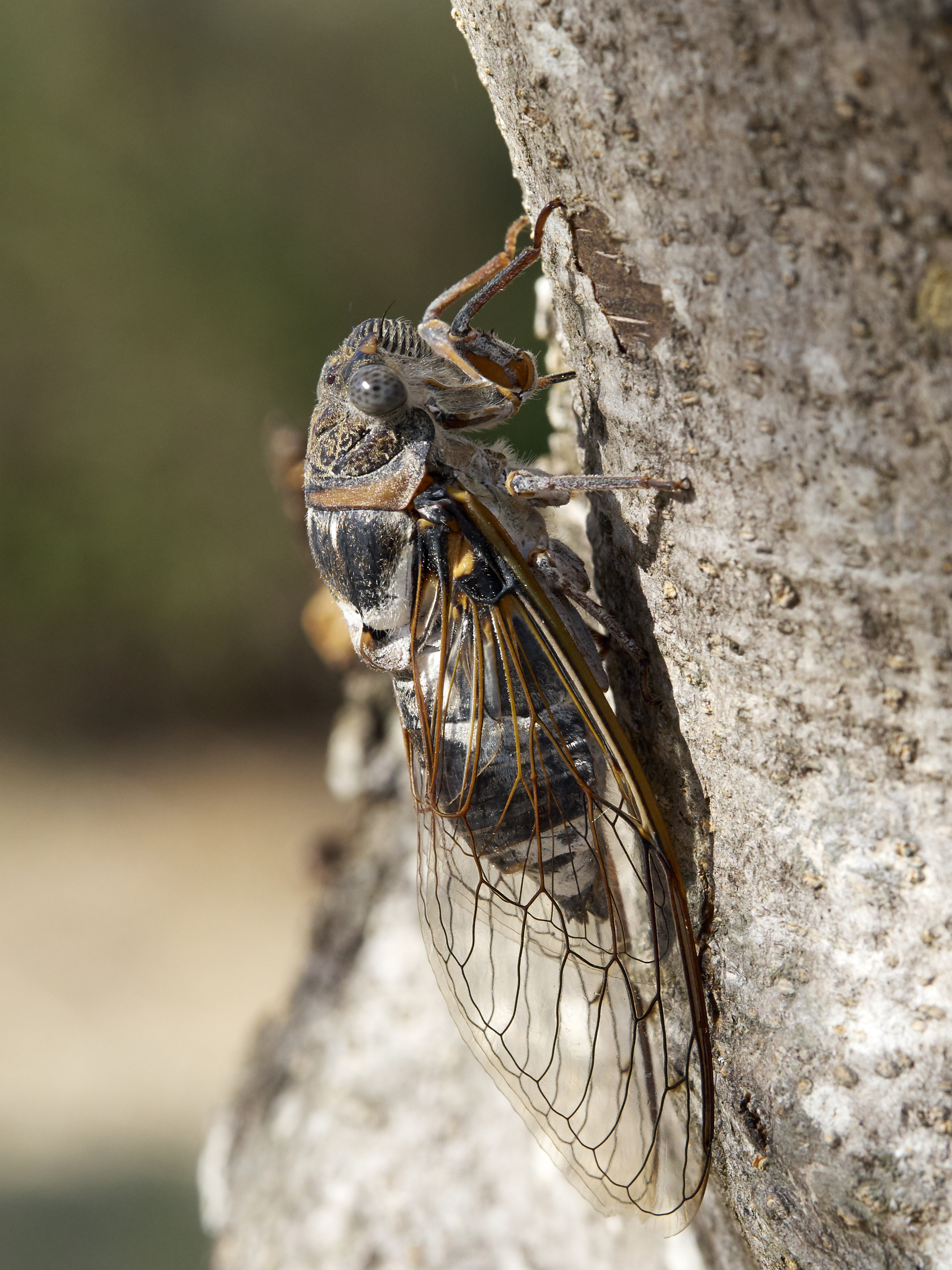 A cicada (cicada orni, according to WP:de/Redaktion Biologie/Bestimmung) on an olive tree near Koroni, Greece